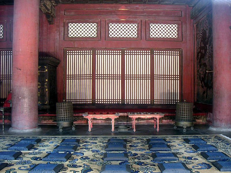 A room inside one of the halls in the Forbidden City, Beijing 坤宁宫内东侧